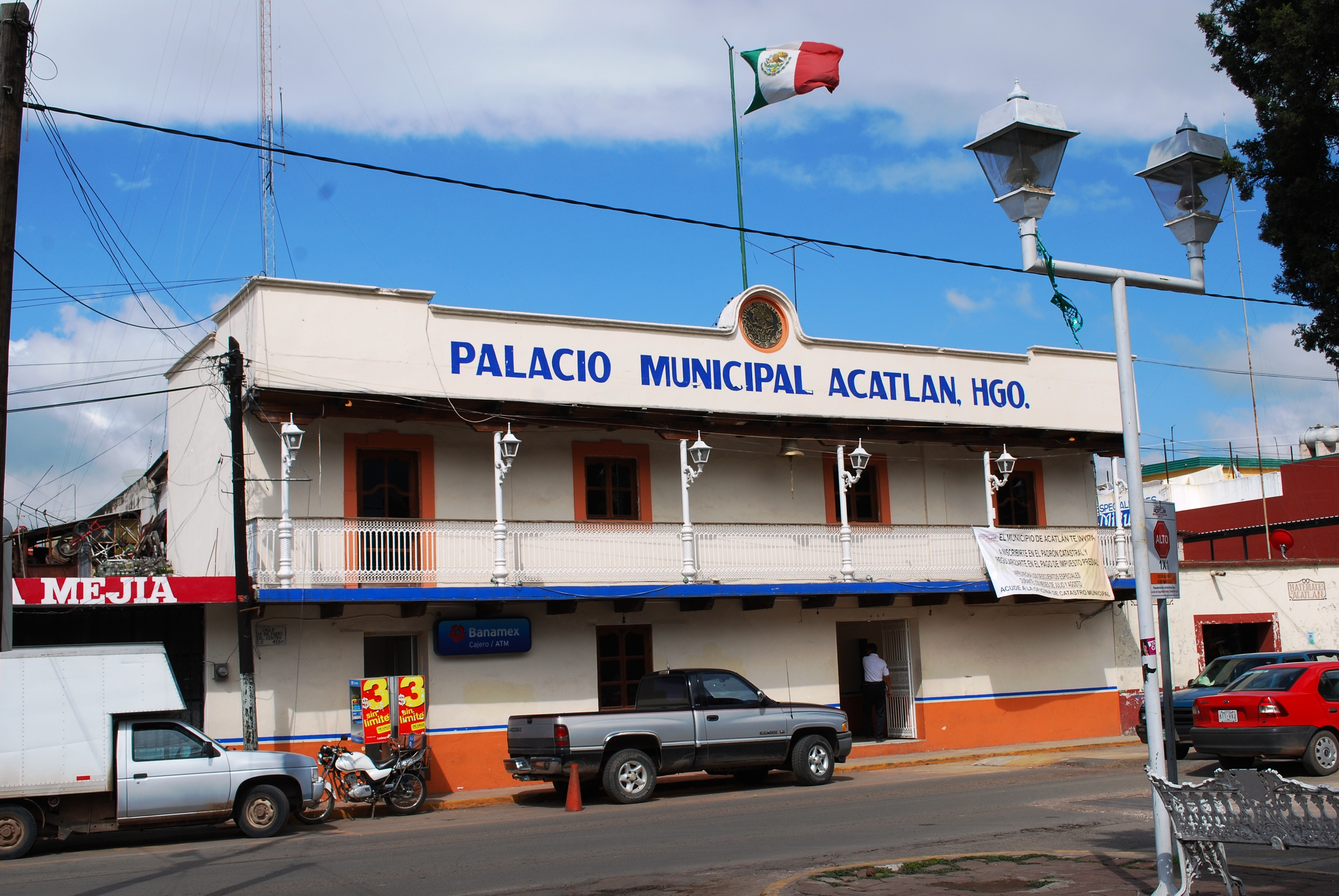 Municipal Palace of Acatlan, Hidalgo, Mexico